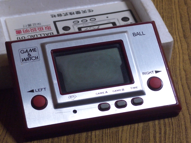 Game & Watch Ball - Nintendo (1980) Model AC-01 (as you can see on the manual cover in the photo)